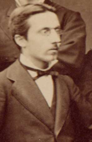 Henri Kuss (19 June 1852 – 22 November 1914) was a French mining engineer. Photograph taken when he attended the Ecole des Mines de Paris circa 1875